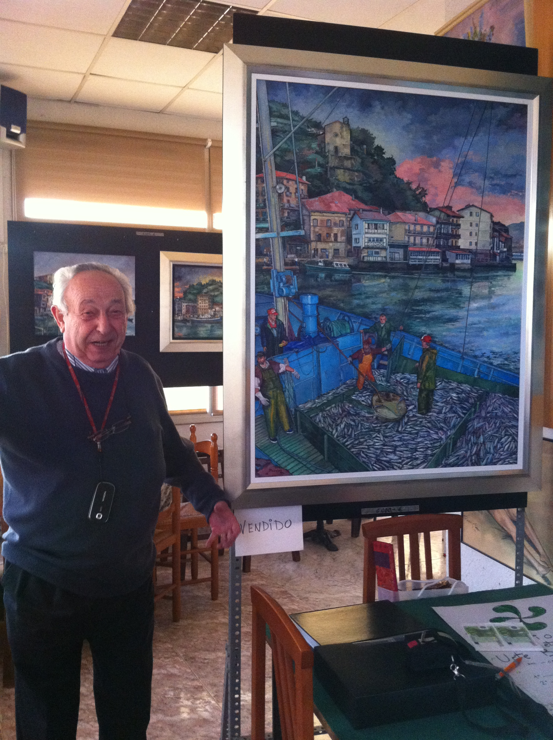 Oil on canvas paint by Pasajes.